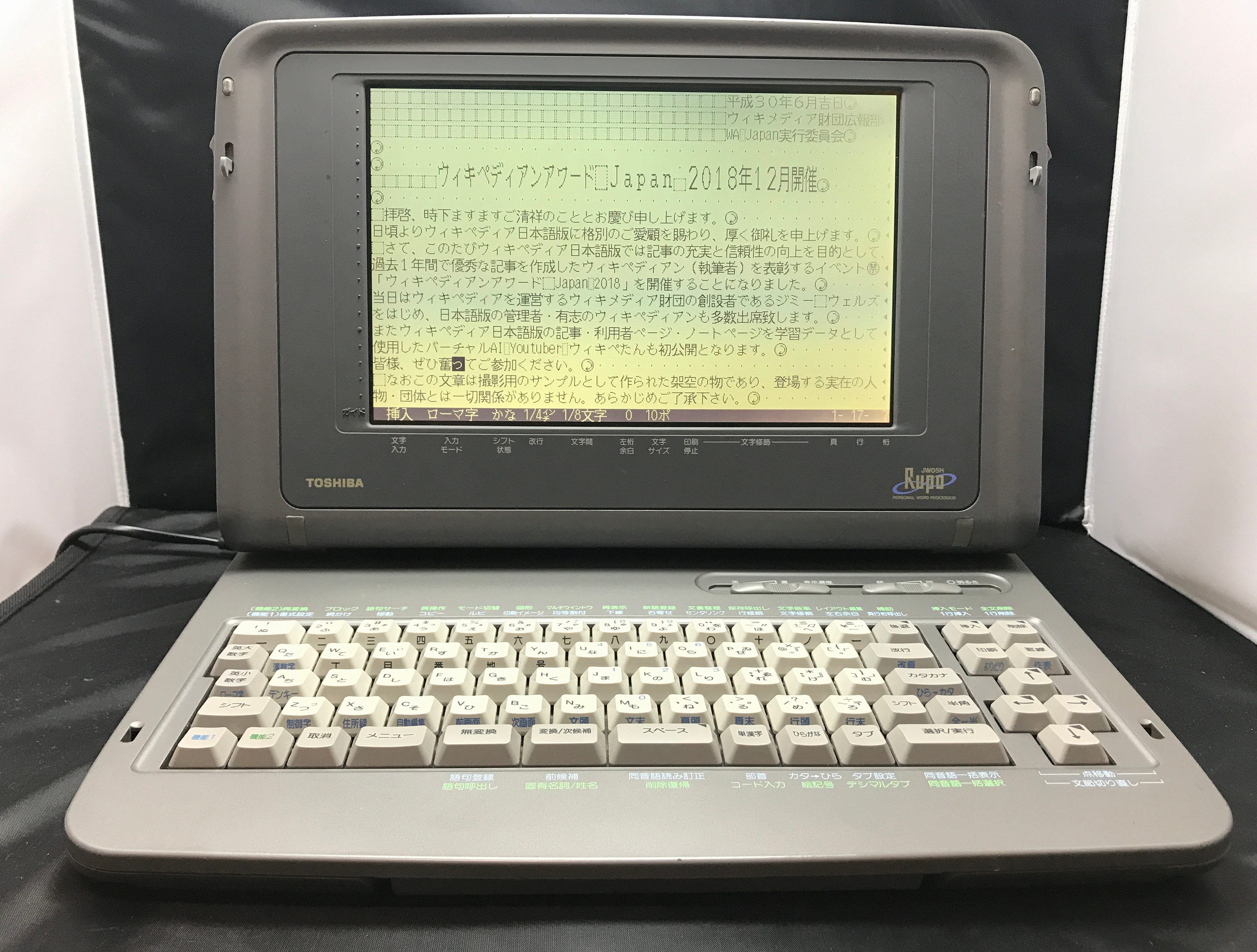 Japanese word processer "Toshiba Rupo JW05H" at front side.